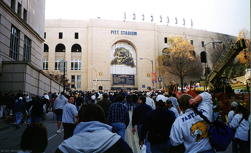 Pitt Stadium at the University of Pittsburgh as it appeared prior to its final game in 1999. photo by Michael G White